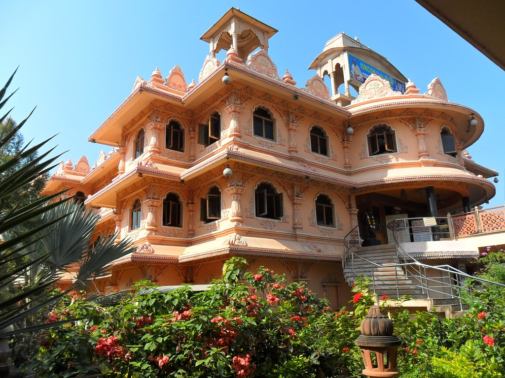 Khrishna temple, Andhra Pradesh, India